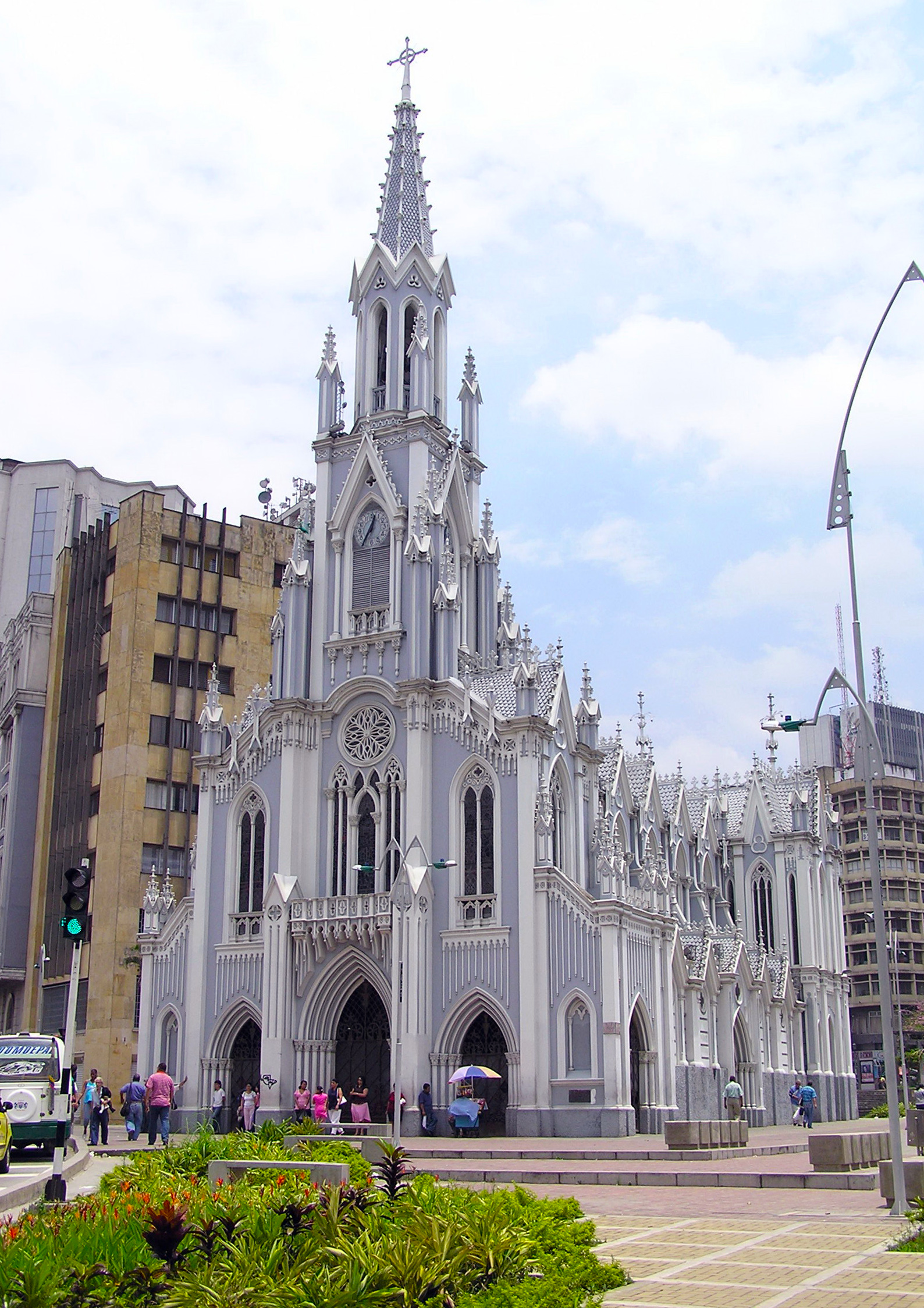 Iglesia la Ermita en Cali Colombia